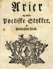 Title page of Danish poet Ambrosius Stub's collected arias and poems, edited by T. S. Heiberg and published 1771